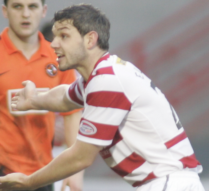 Clydesdale Bank Scottish Premier League - Hamilton Academical vs Dundee United. Hamilton's David Elebert questions the linesman's decision during the 1-1 draw against Dundee Utd at New Douglas Park, Hamilton. Picture : Alasdair Middleton/Universal News & Sport (Scotland) Saturday 26th February 2011 Universal News and Sport (Europe) All pictures must be credited to (0ffice) 0844 884 51 22